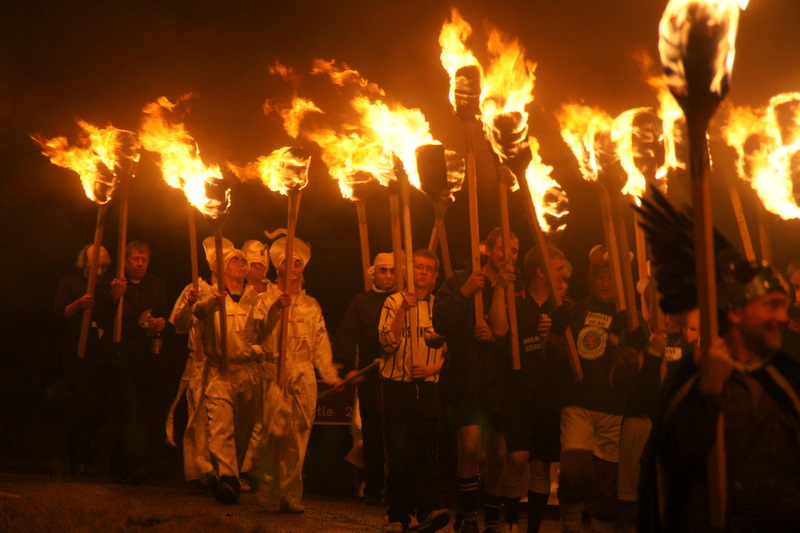 Guisers at Uyeasound Up Helly Aa Members of various squads in the torchlit procession.